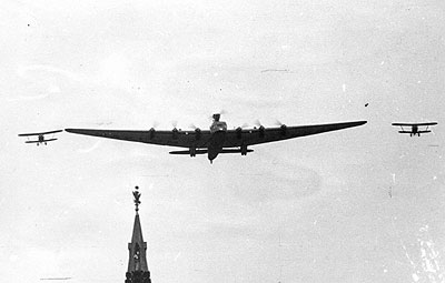 USSR pass. Airplane Tupolew / Tupolev ANT-20 and two Po-2. Dead in 1935